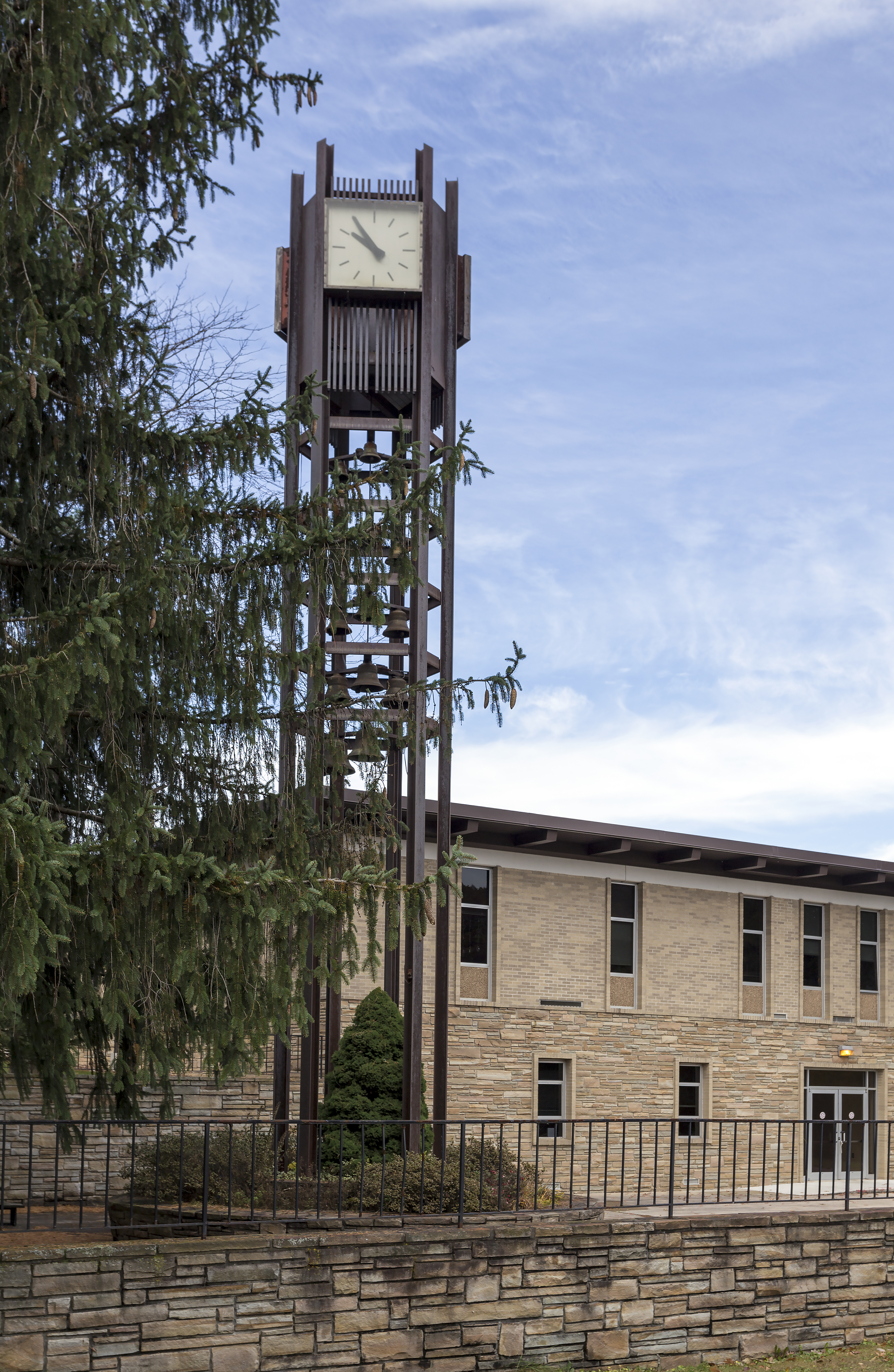 The bell tower at Allegany College, Cumberland, Maryland, USA